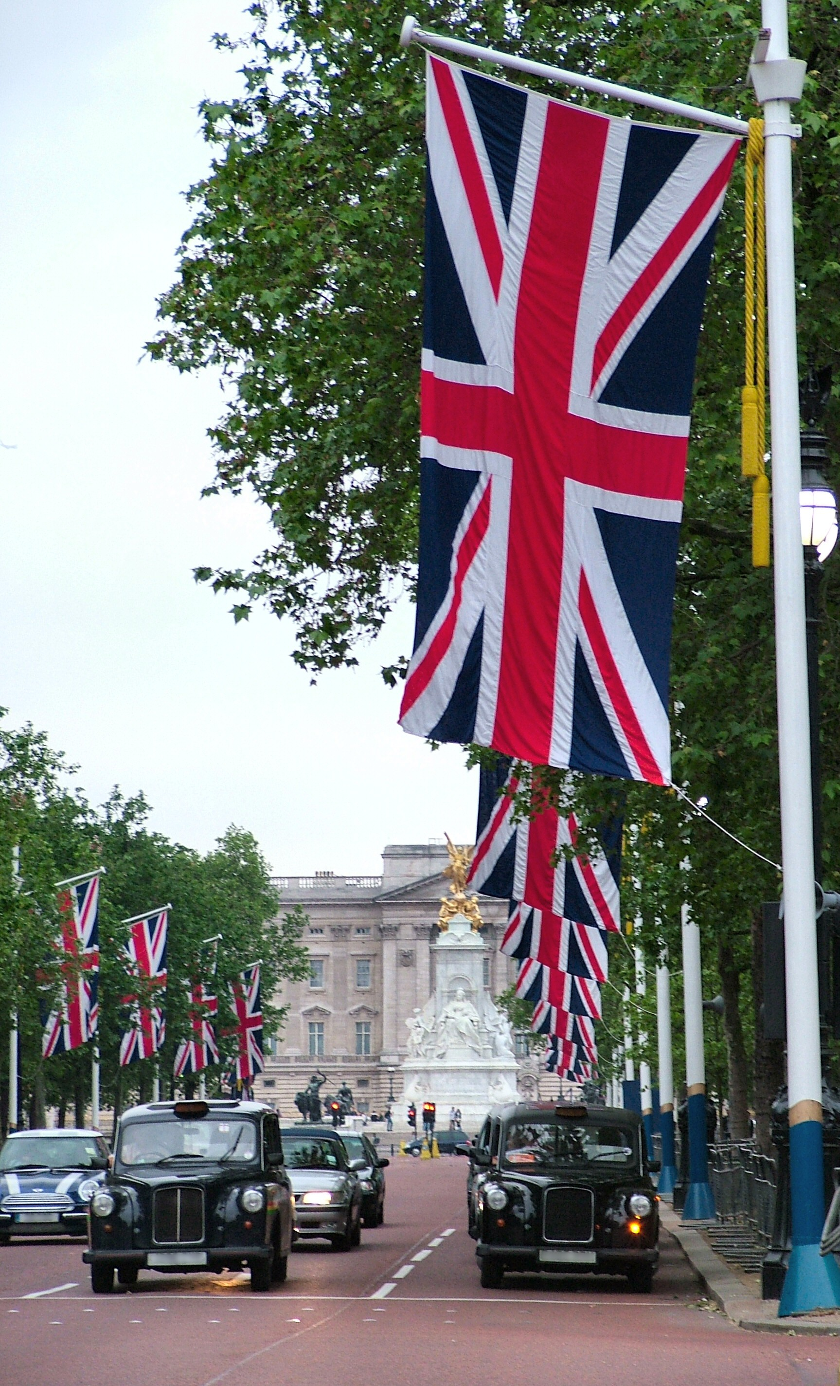 The Mall (London) Date: 5th June 2004 19:04 1 ISO: 200 Photograph: ed g2s • talk